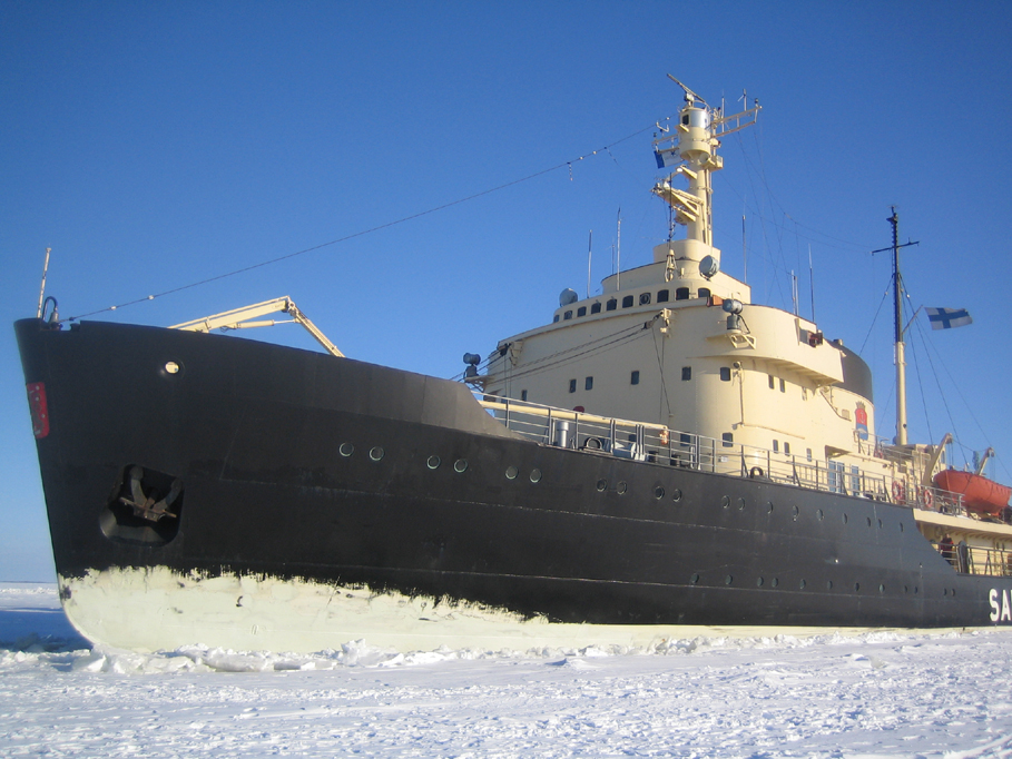 Finnish icebreaker Sampo 3